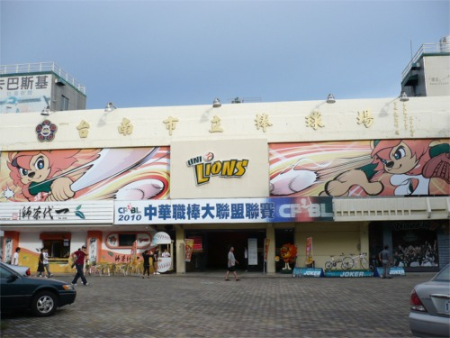 The front gate of the Tainan Municipal Baseball Stadium Photographer: jitcji